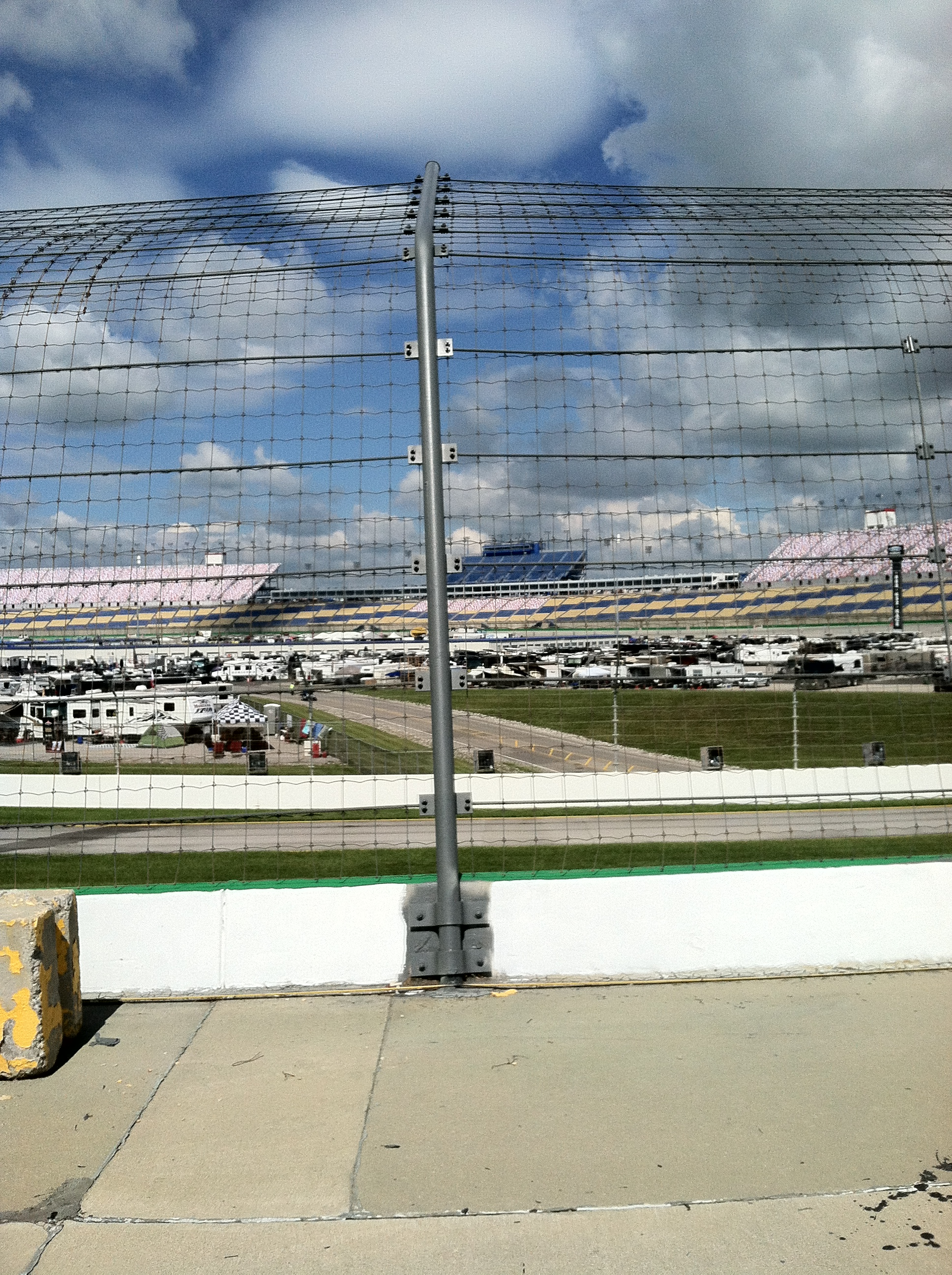 View of the track from outside turn 3.